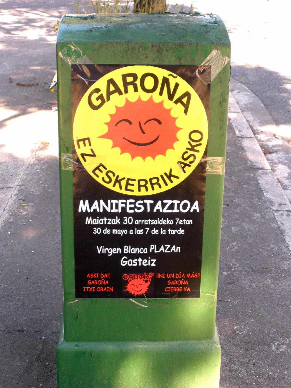 Pasquín con convocatoria de manifestación en Vitoria-Gasteiz (30 de mayo de 2009) en exigencia del cierre de la Central Nuclear de Santa María de Garoña (Burgos).